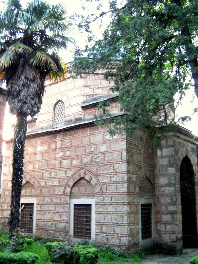 Mausoleum of Şirin Hatun located at Muradiye Complex, Bursa.